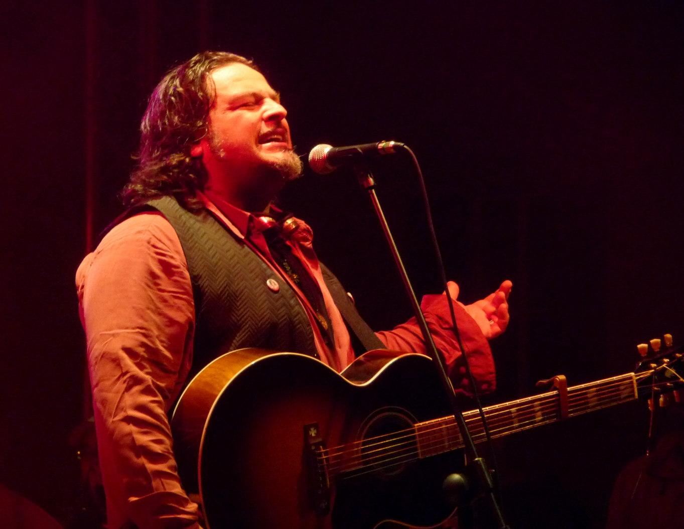 Stefano Bellotti, Italian singer